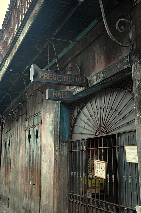 Front door of the Preservation Hall